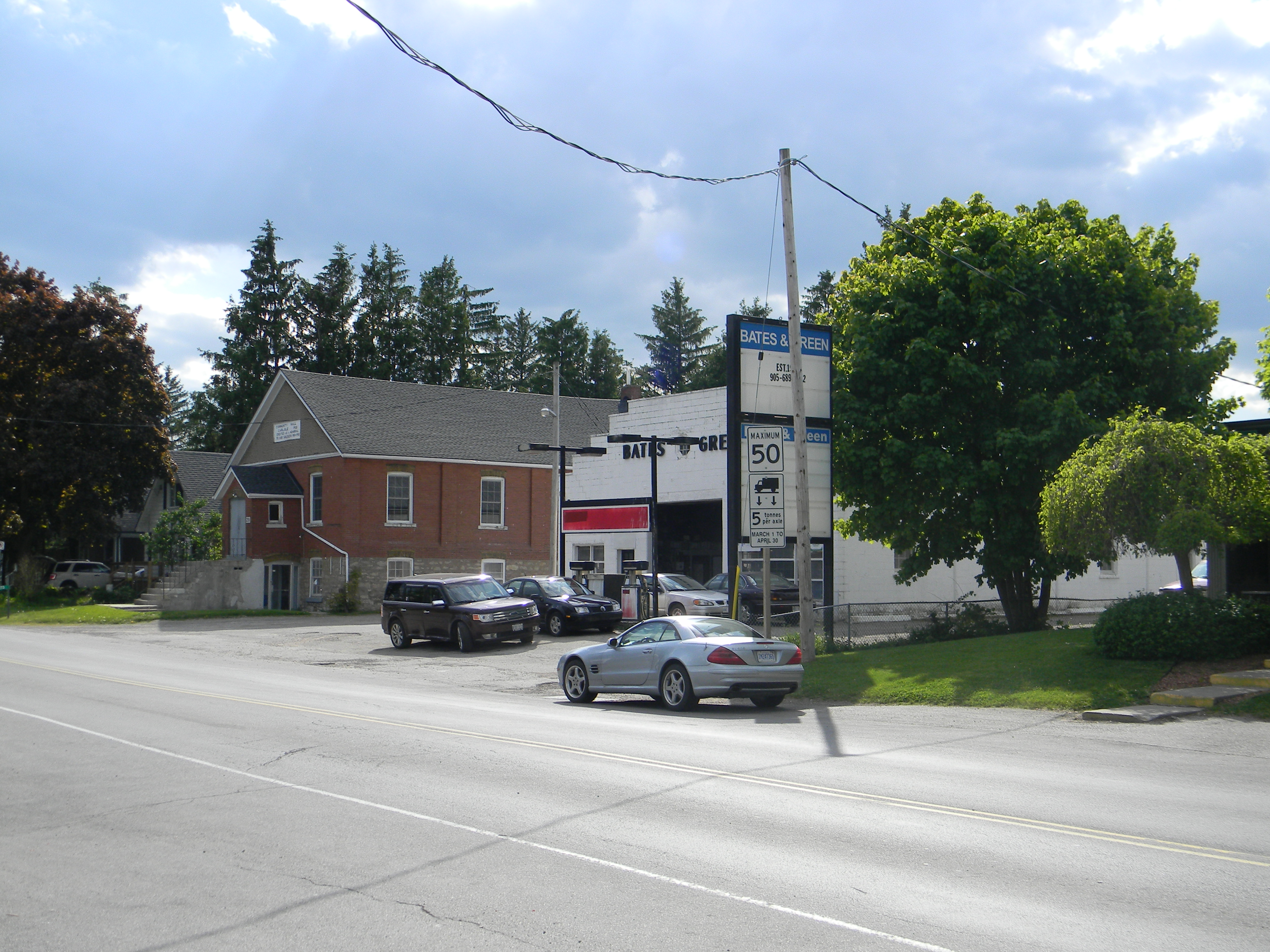 Carlisle, Ontario, Canada. Village downtown, Community Hall (1921)